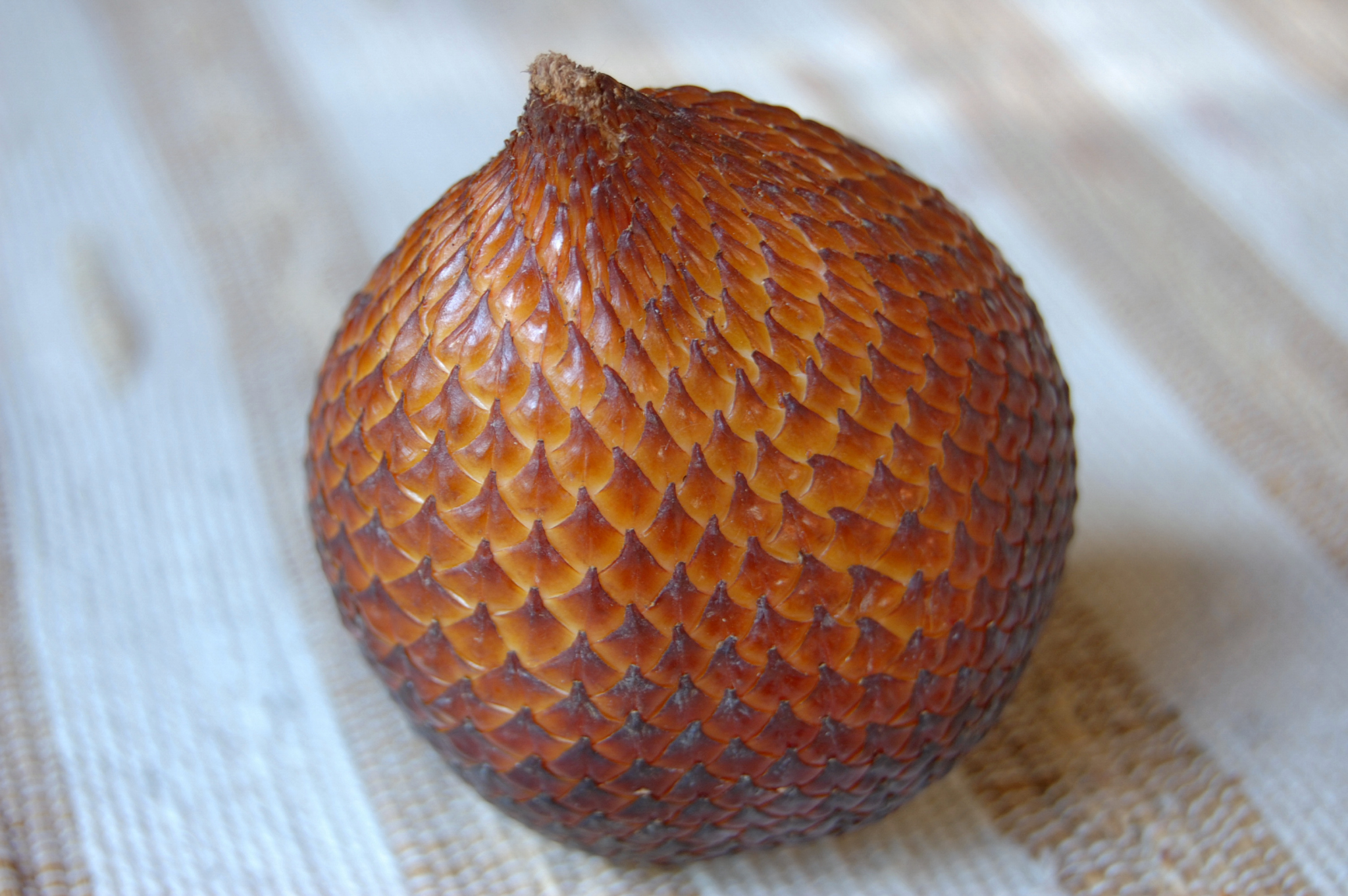 Salak fruit, the fruit of the Salak palm (Salacca zalacca), also known as snake fruit.